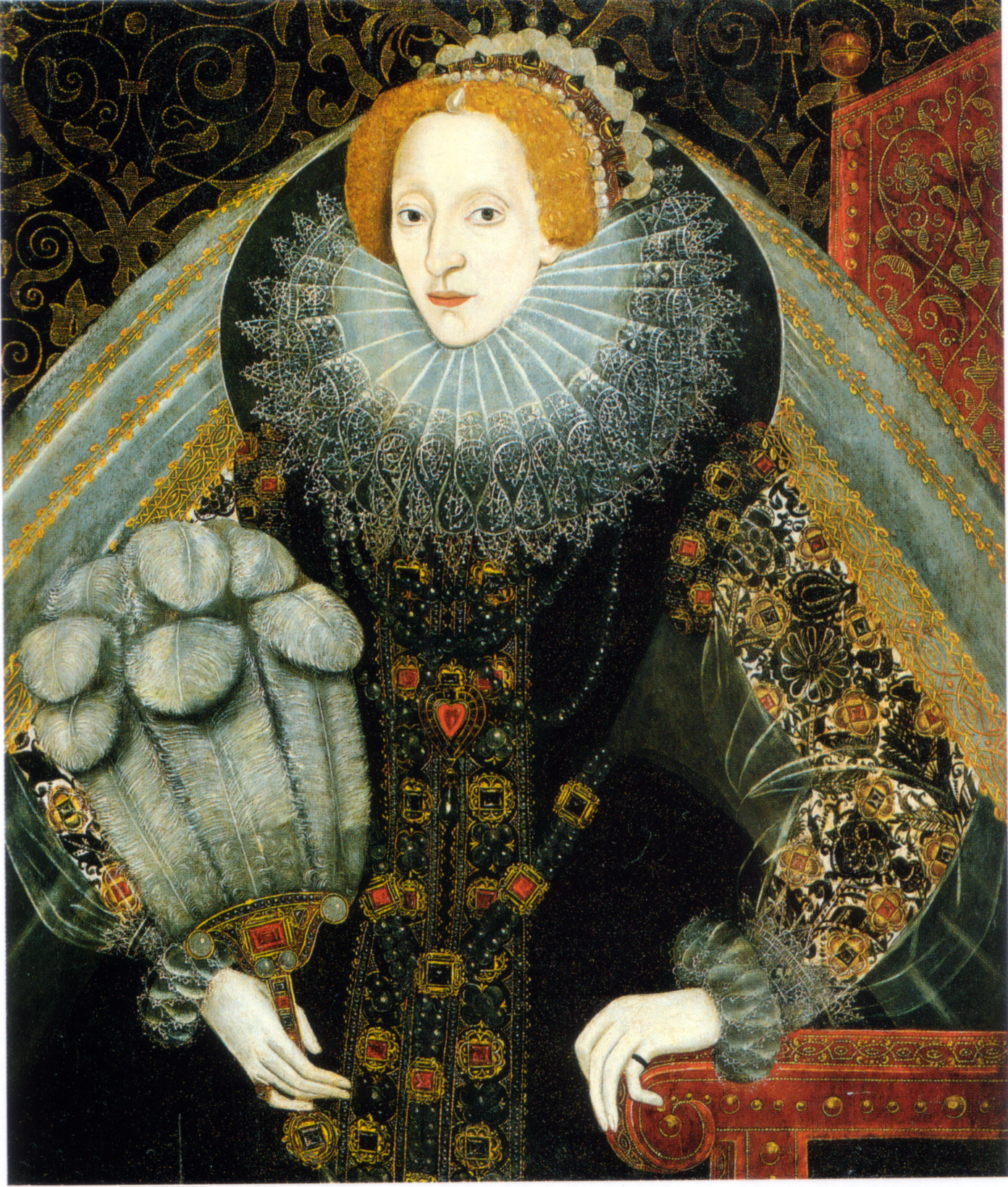 This painting, of several similar portraits of this type now known, was found in a seventeenth-century farmhouse in England in 1890.